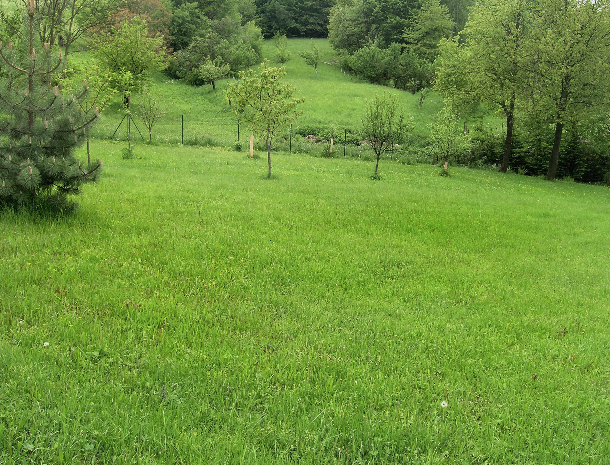 Pozděchov Natural Reserve in Pozděchov village, Czech Republic